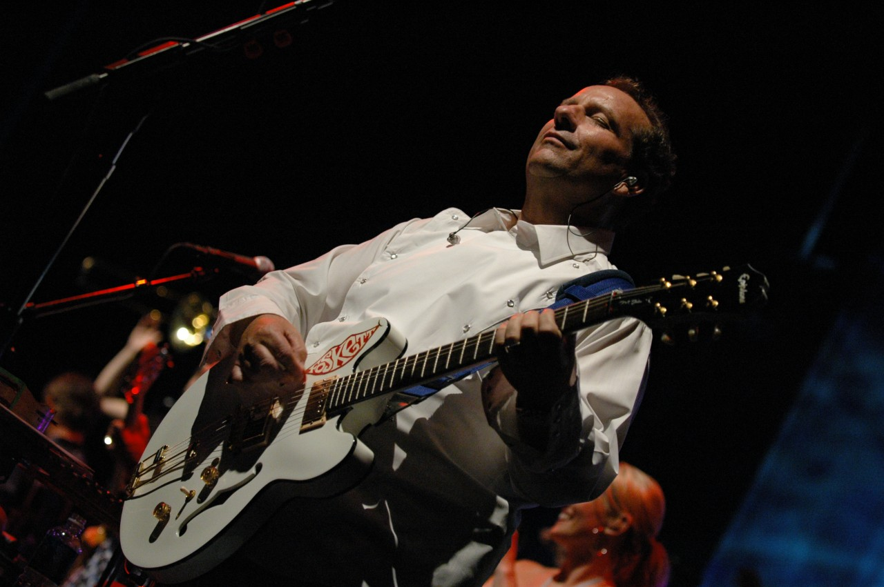 Photo of Jeffrey Foskett on stage with Brian Wilson's Band